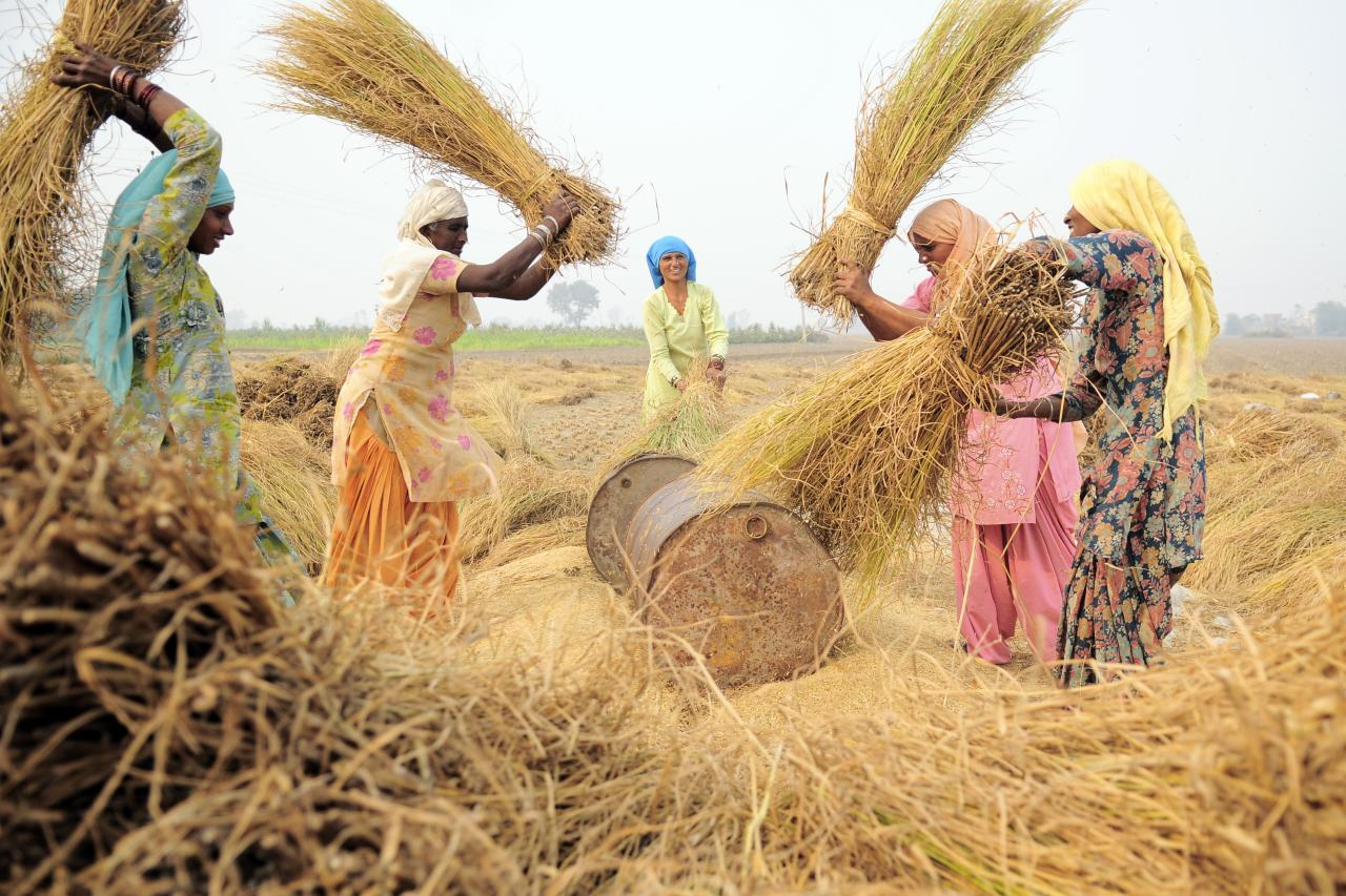 Pic by Neil Palmer (CIAT). Threshing, near Sangrur, SE Punjab, India. November 2011